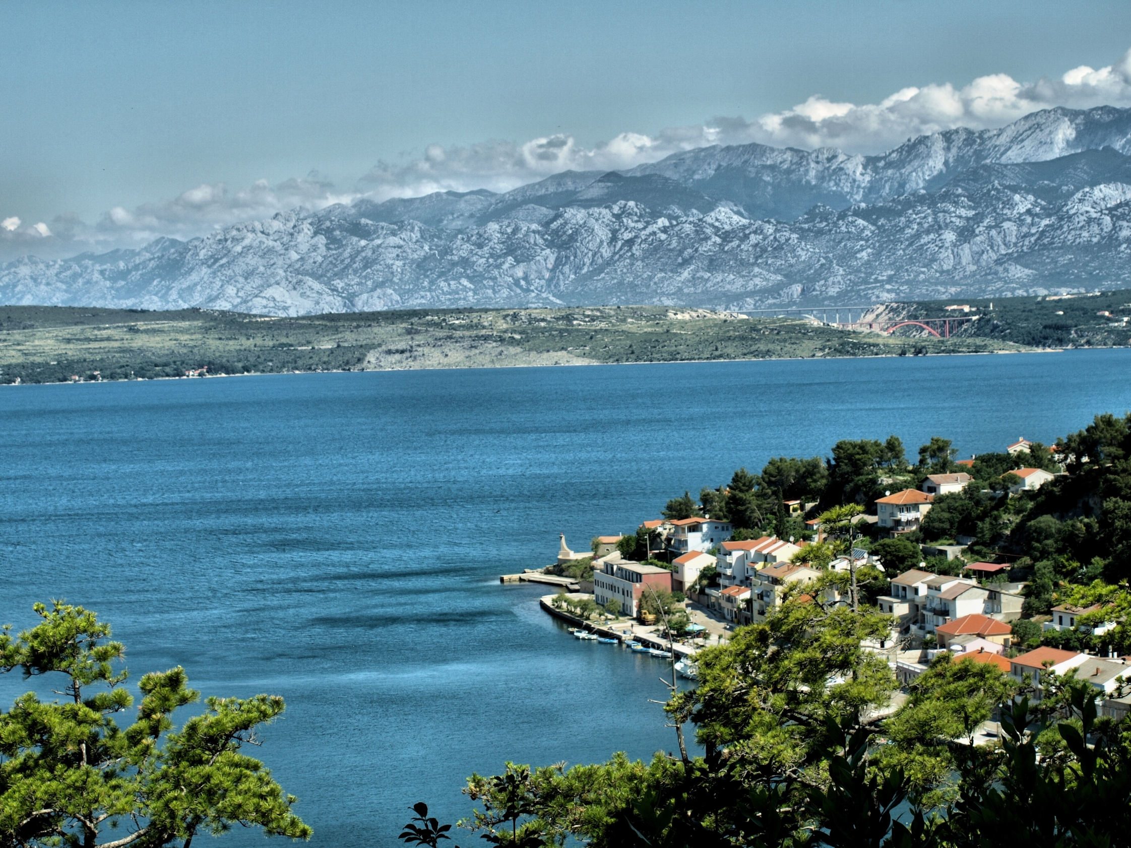 Cultural and history of Croatia